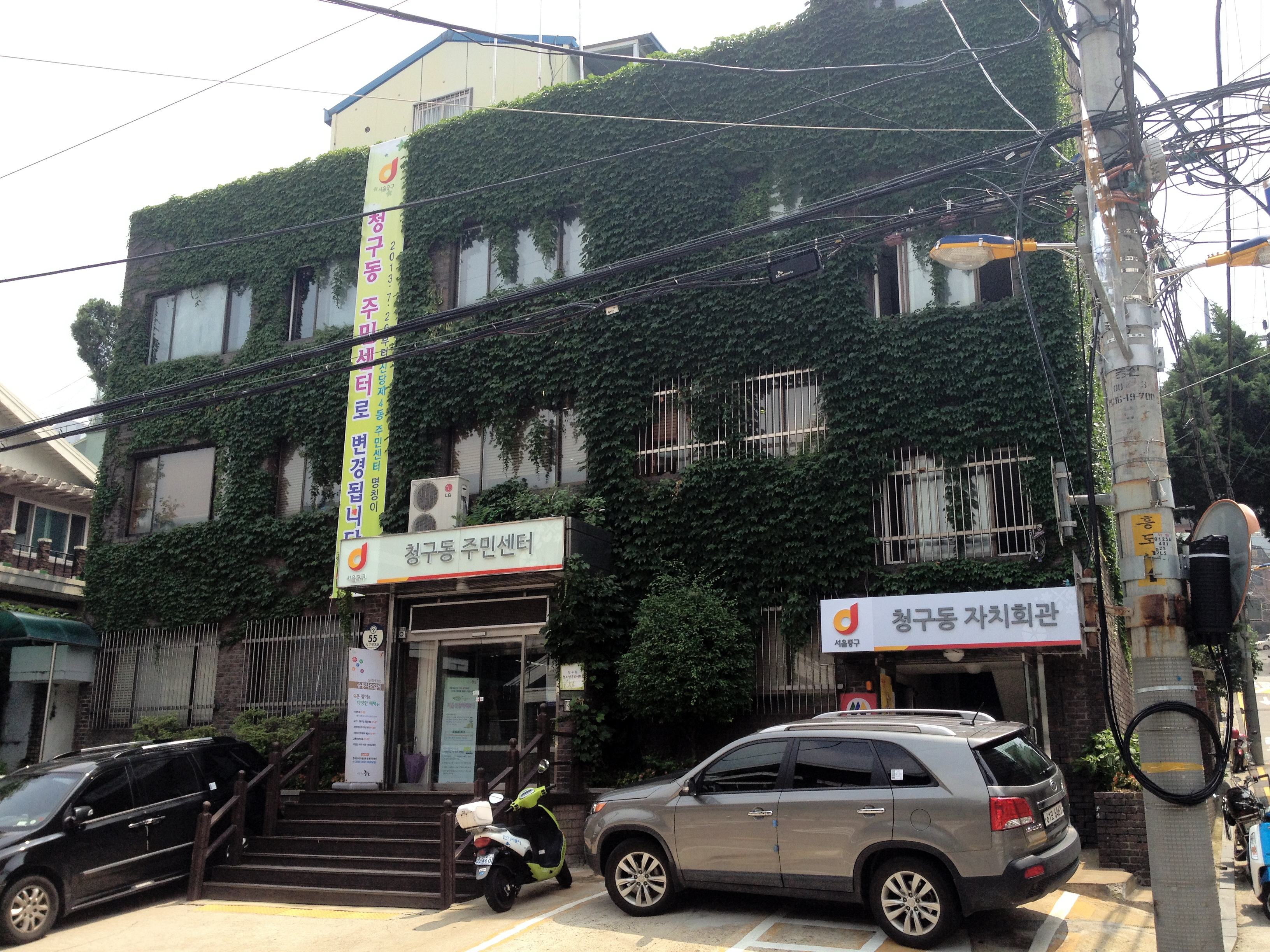 Cheonggu-dong Community Service Center(Jung-gu)